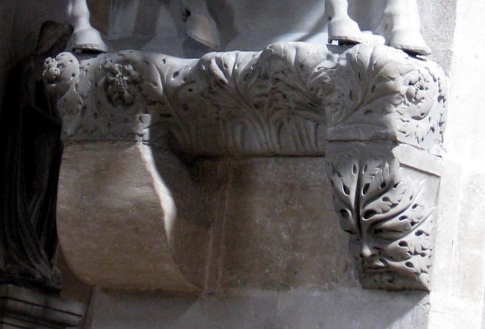 Console of the Bamberg Horseman